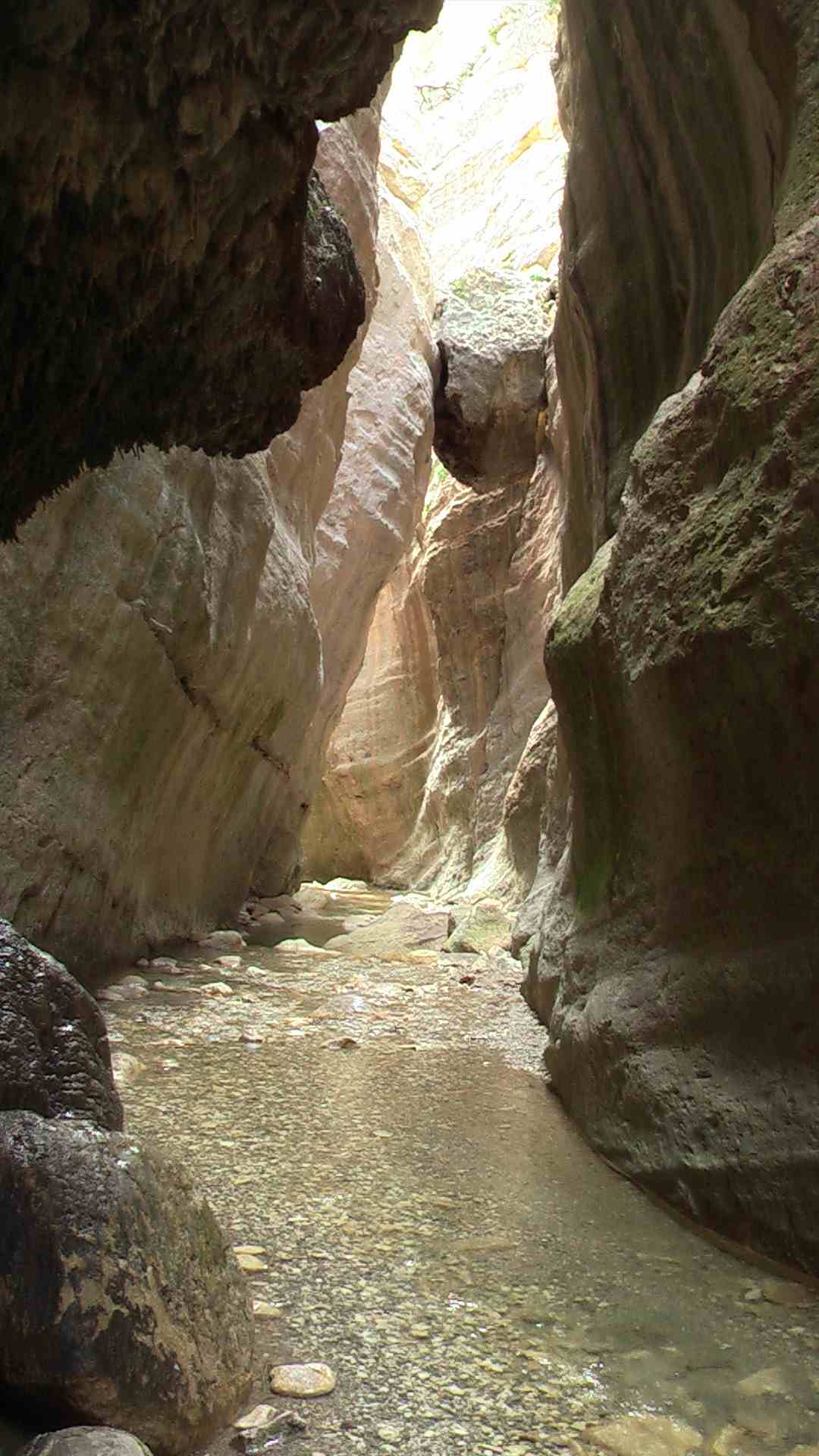 Suspended boulder between sides of Avakus gorge